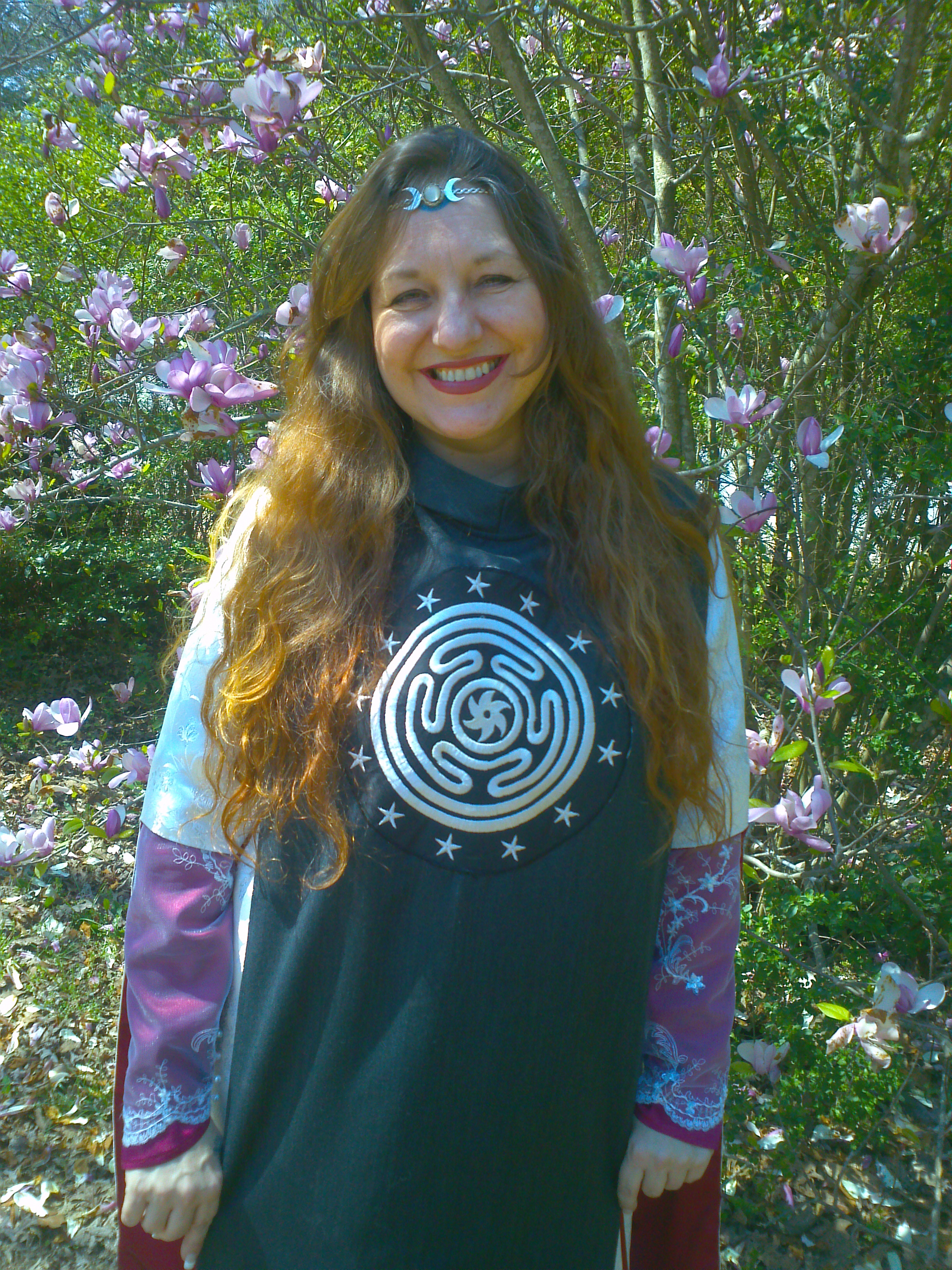 Highpriestess Reverend Belladonna Laveau is the leader of the Aquarian Tabernacle Church. The largest Wiccan organization in the world and is the holder of an umbrella 501c3.